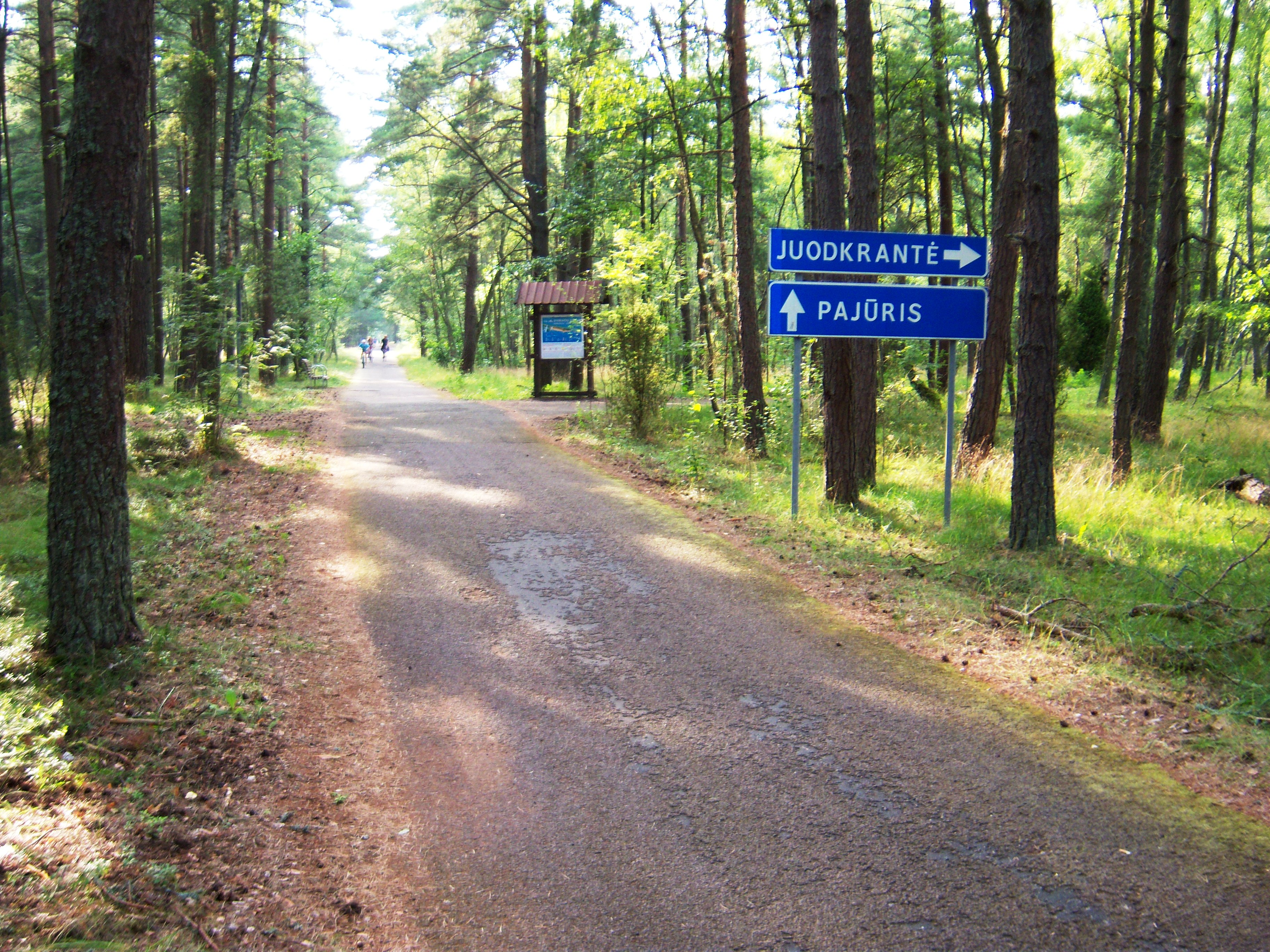 Bikeway by Pervalka, Neringa, Lithuania